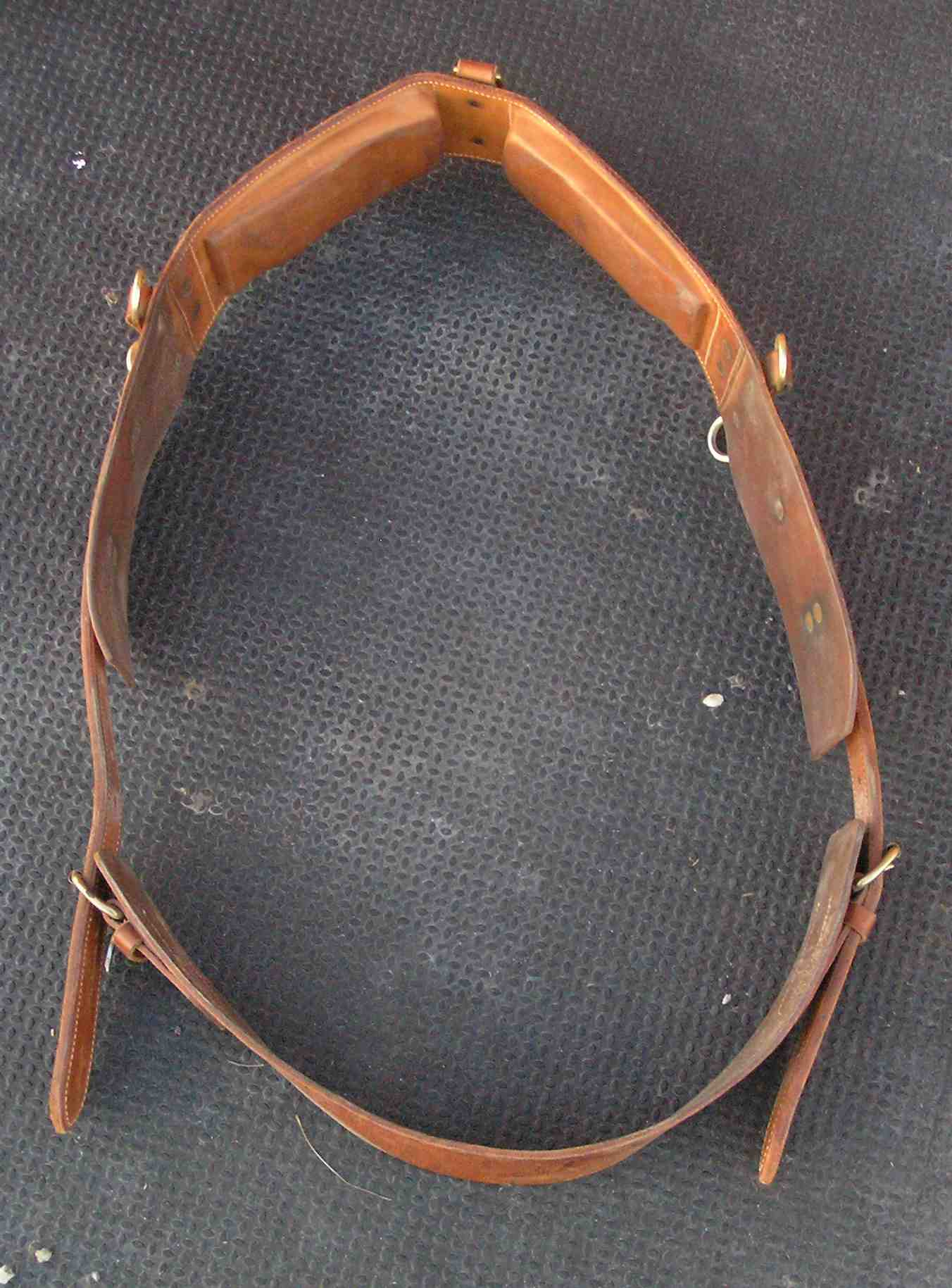 A surcingle, sometimes called a "roller" used for training horses